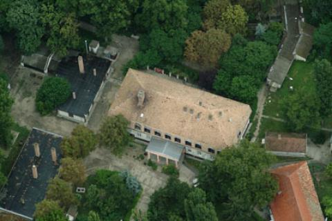 Solt, Hungary, aerialphotography